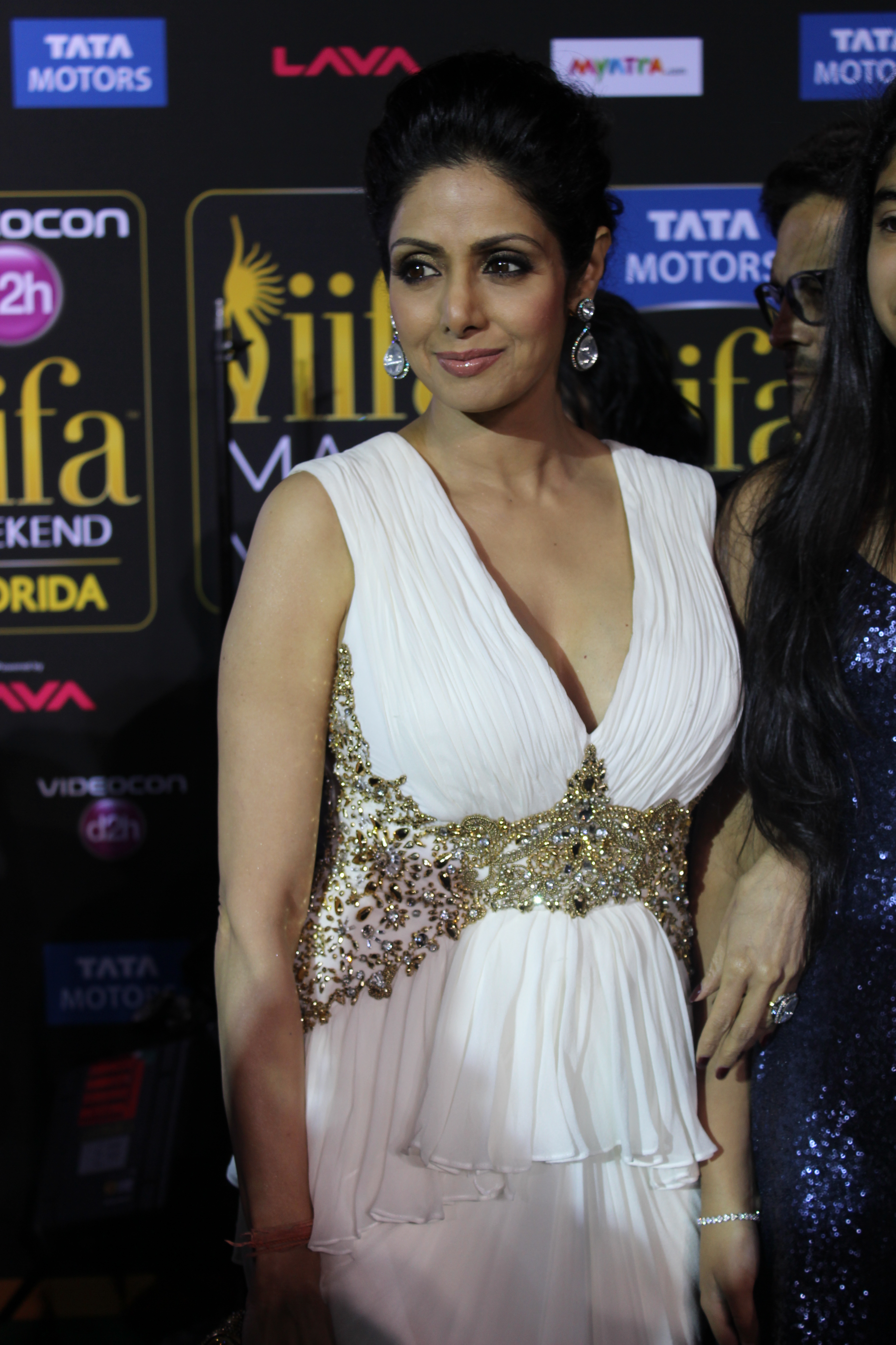 Sridevi at IIFA 2014